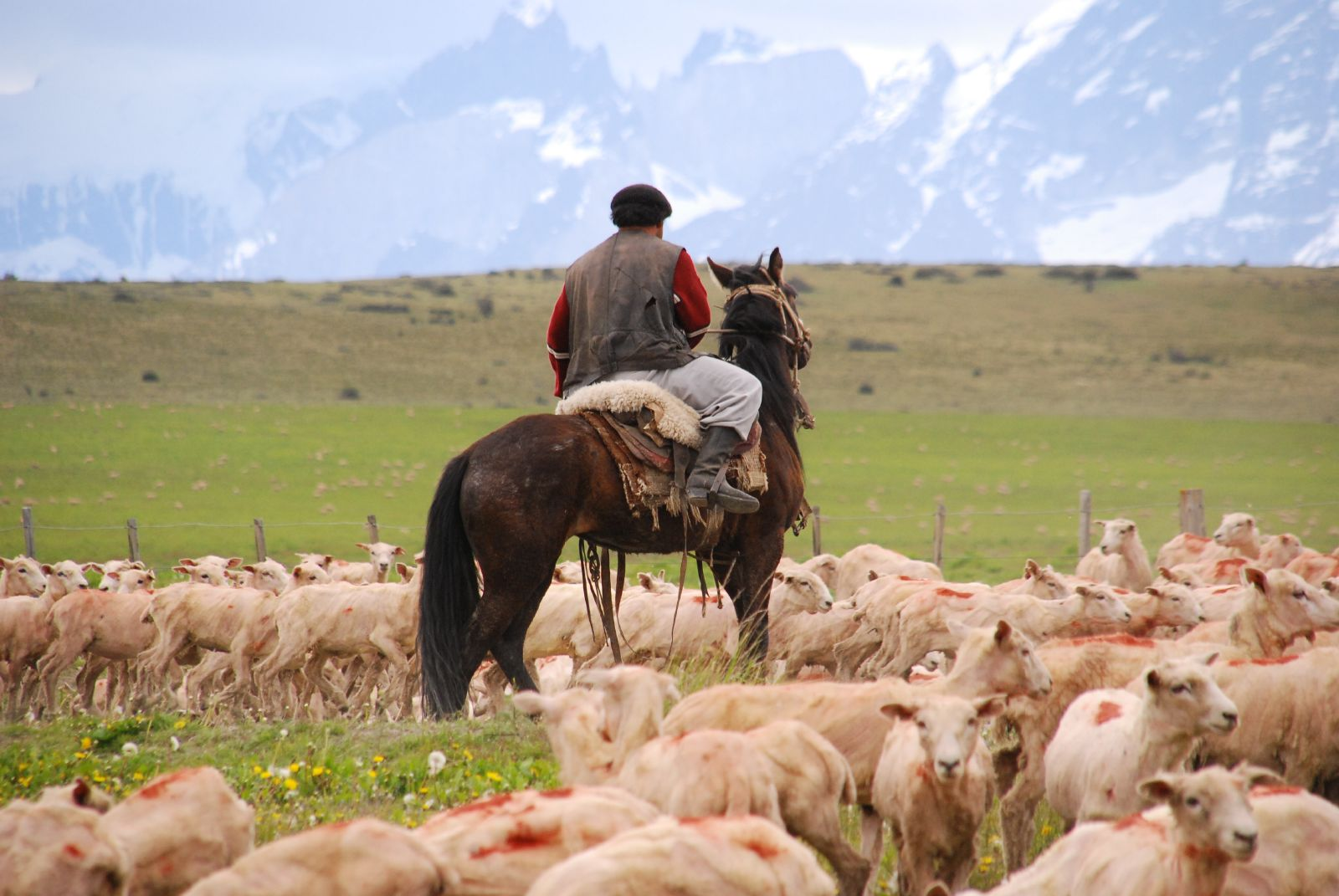 A Chilean gaucho herding sheep.